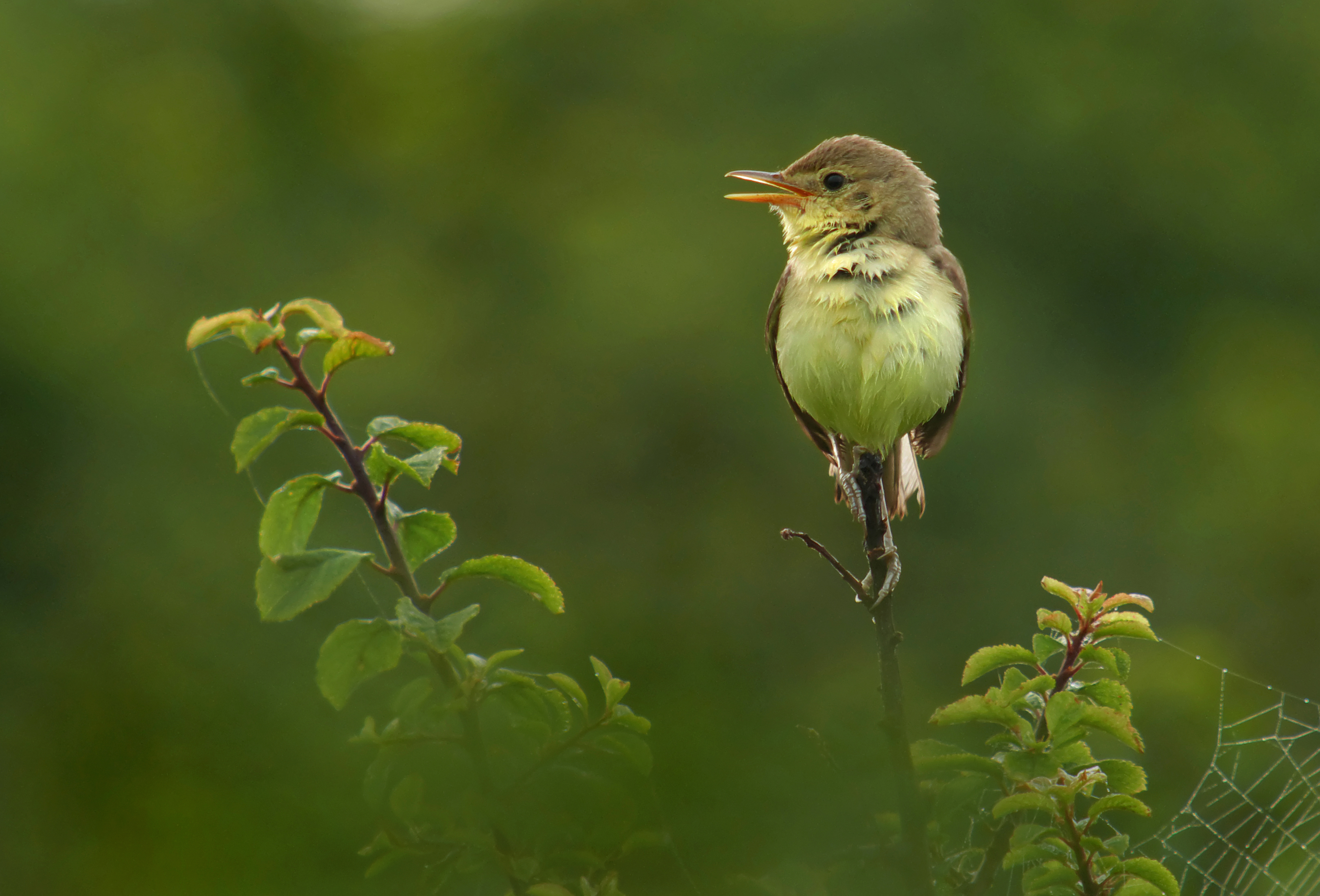 Digiscoping with Swarovski ATM 80 HD 30 X, Panasonic GX7 + Lumix G 20mm F1.7 ASPH lens (Adapter DCB)